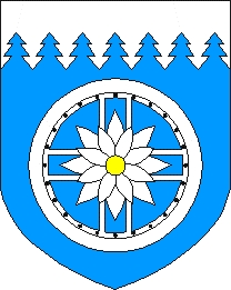 Coat of arms of Räpina Parish, Põlva County, Estonia.